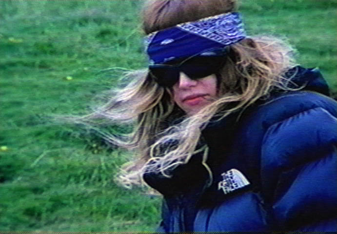 Video still capture of Jennifer Herrema from Royal Trux video